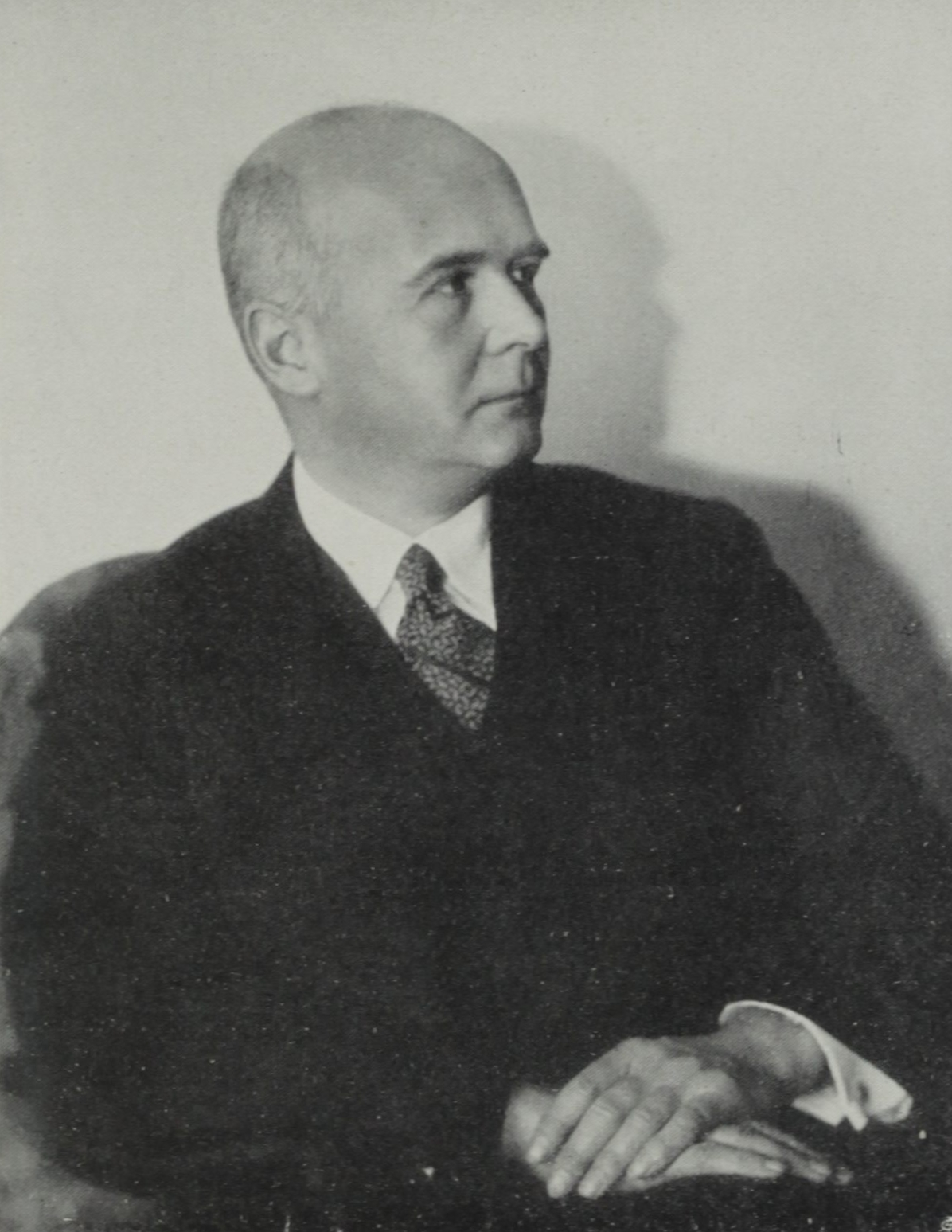 Eduard von der Heydt (1882–1964)